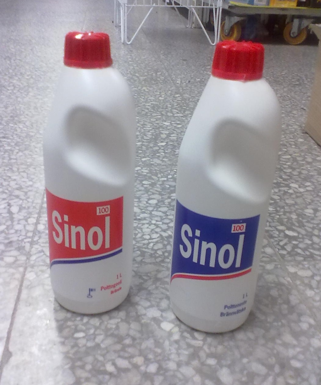 Denatured Sinol-ethanol in gel (red) and liquid (blue) bottles